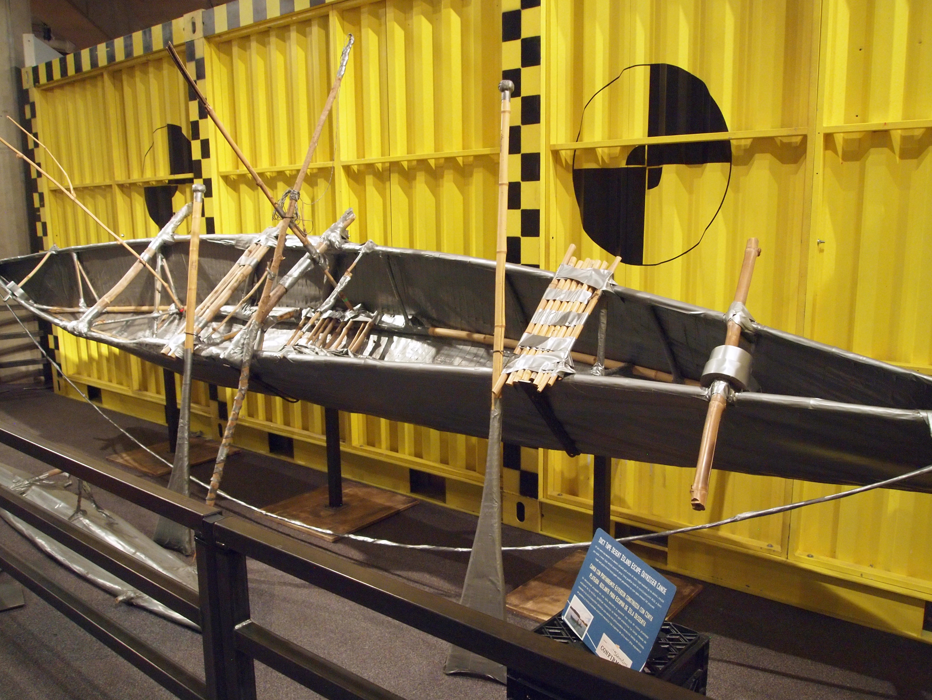 MythBusters Duct Tape Island Outrigger Canoe